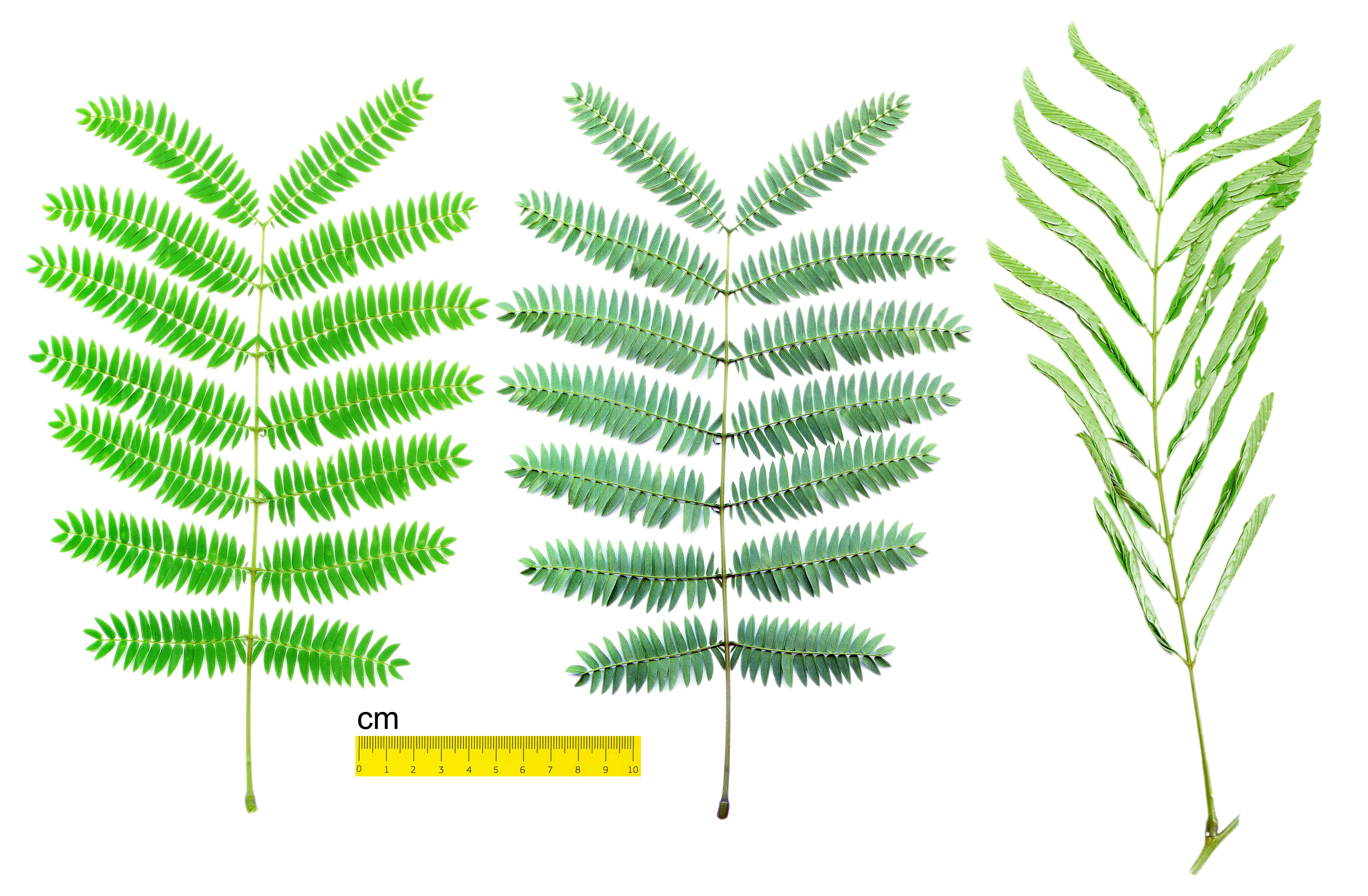 Albizia julibrissin, adaxial, abaxial surfaces of leaf, and closed leaf (scan: Mihailo Grbic)